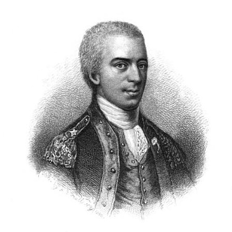 Engraved portrait of Continental Army Brigadier General Samuel Blachley Webb by H. B. Hall after miniature painting by by Charles Willson Peale (1779). Webb served in the American Revolutionary War at Bunker Hill, White Plains, Trenton, and Princeton, and raised and commanded an "additional" regiment from Connecticut. Captured in December 1777, he was not exchanged until 1781.